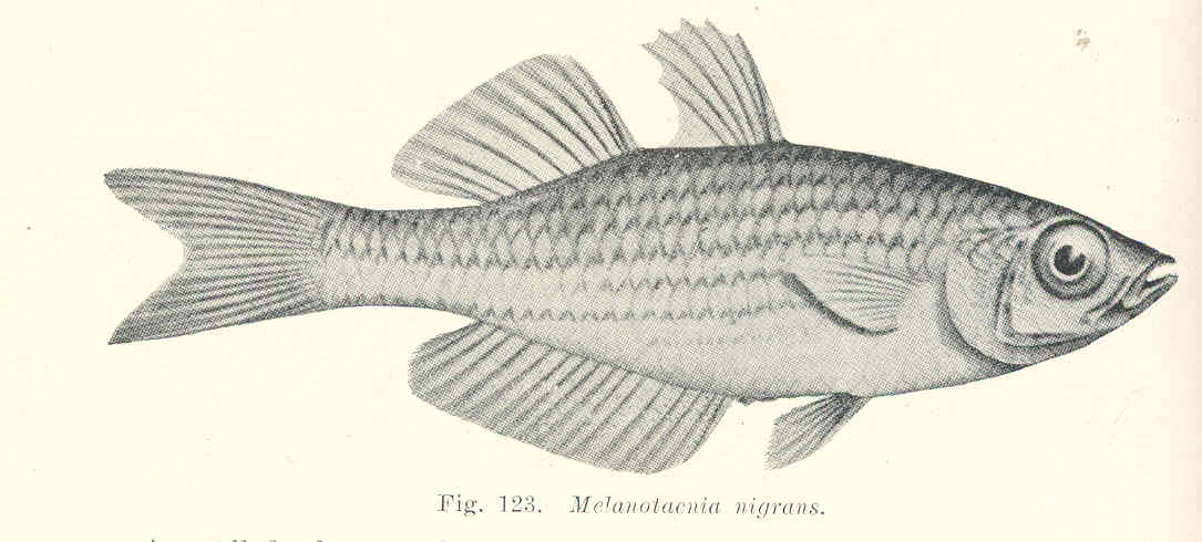 Melanotaenia nigraans Subject: Rainbowfish, Melanotaenia Tag: Fish